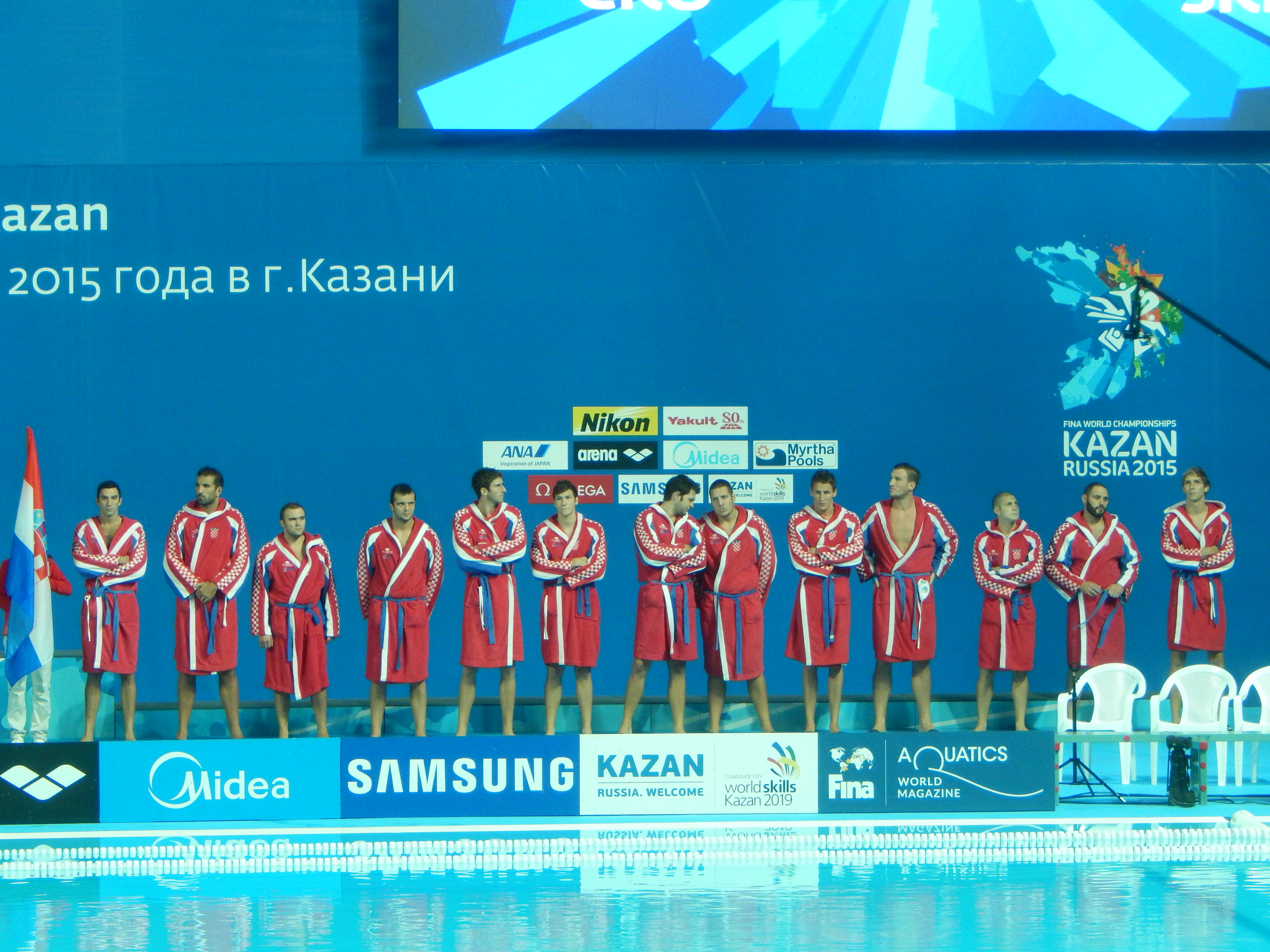 The gold medal match between Team Serbia and Team Croatia and the victory ceremony. All photos have been taken from the photographers sector. I was simply usual visitor but my ticket was to non-existent seats, therefore I was moved to that sector. All good photos I upload to WikiCommons for free use.